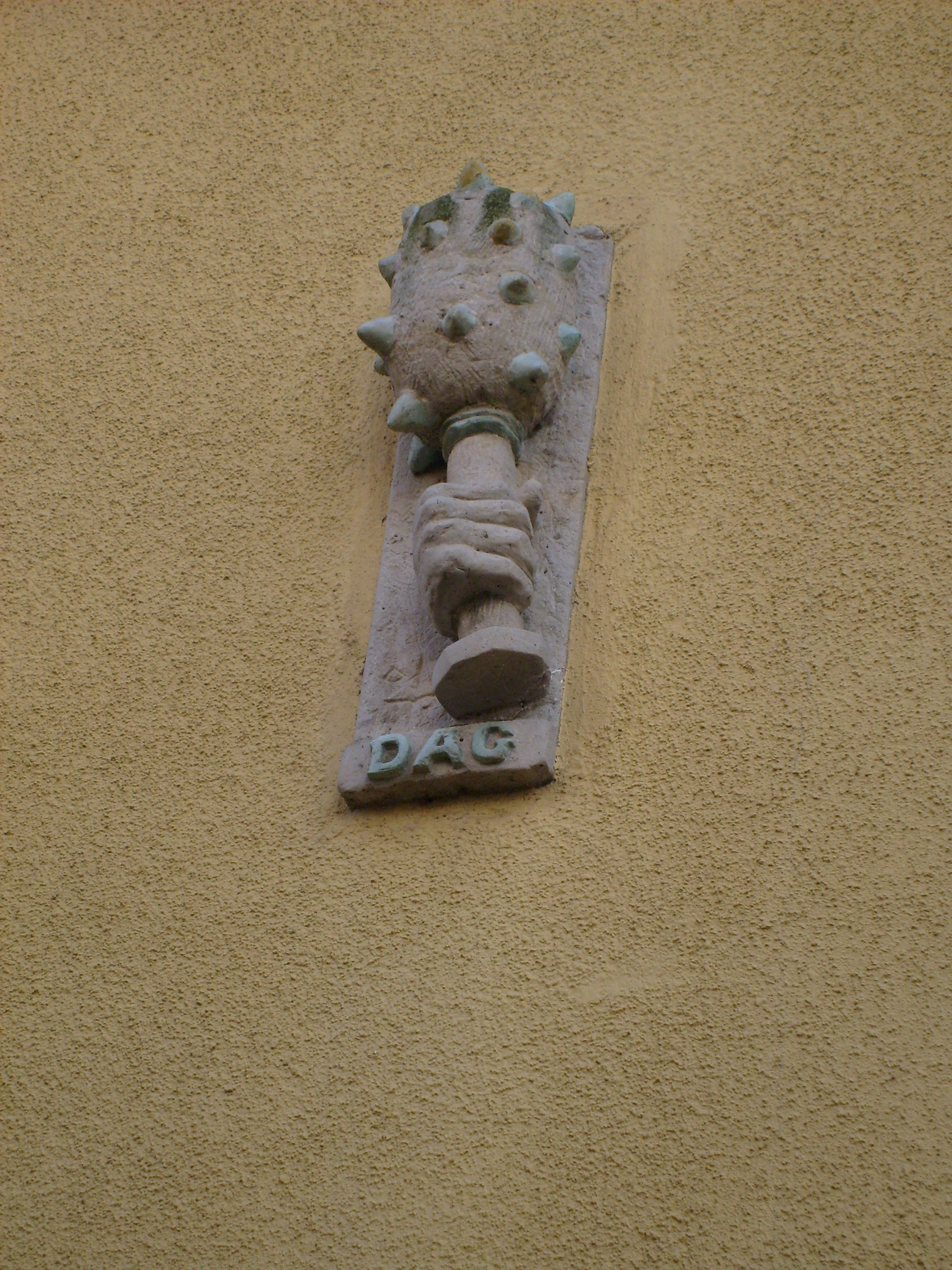 Cablestone center of Haarlem, The Netherlands